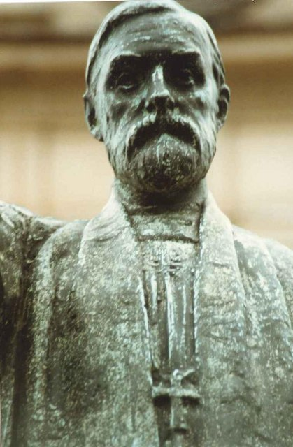 Charles Gore, First Bishop of Birmingham Statue of First Bishop of Birmingham in the grounds of Birmingham Cathedral, just off Temple Row, Birmingham. Further history at Charles_Gore